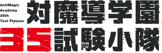 Anti-Magic Academy: The 35th Test Platoon logo